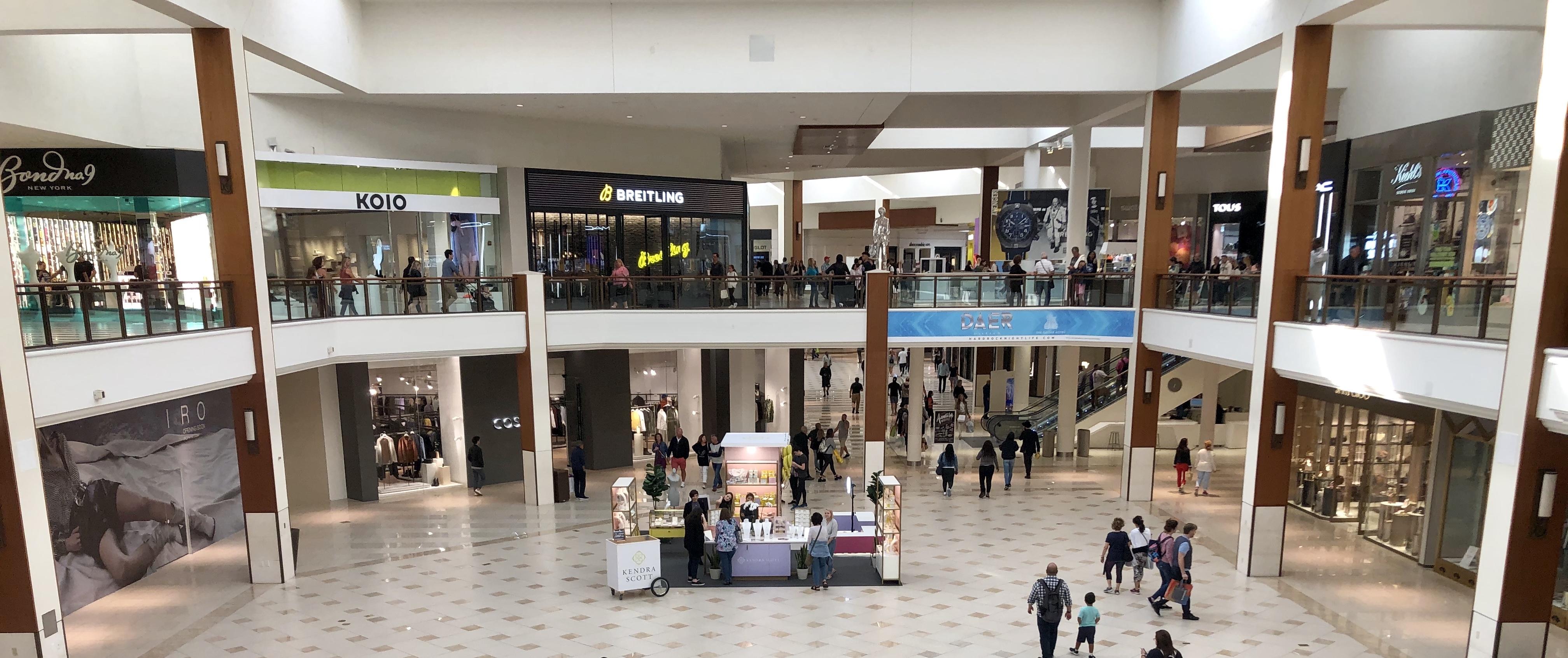 Interior of the Aventura Mall in February 2020. Photo by Chris6d.